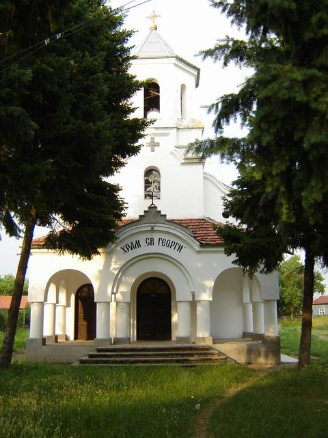 Church "Saint George" in village Vasilovtsi, Montana district, Bulgaria